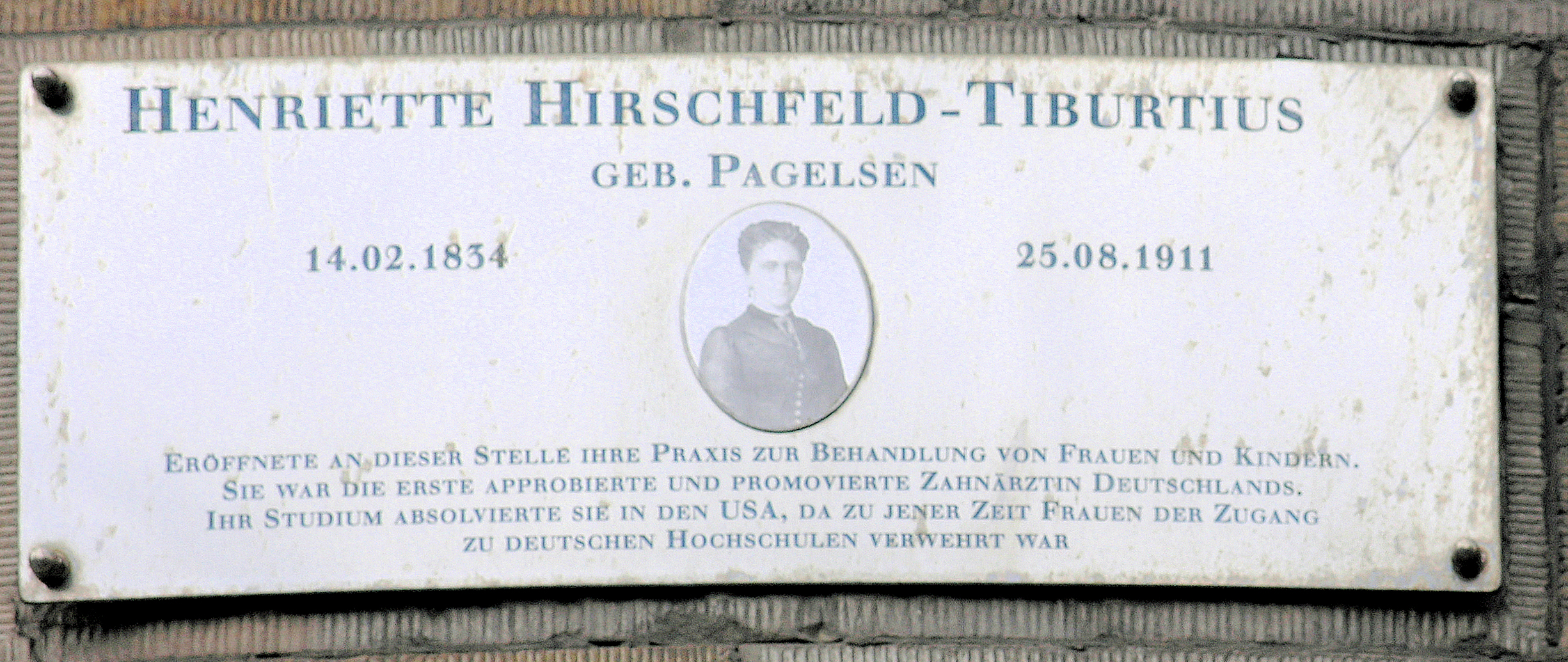 Memorial plaque, Henriette Hirschfeld-Tiburtius, Behrenstraße 9, Berlin-Mitte, Germany